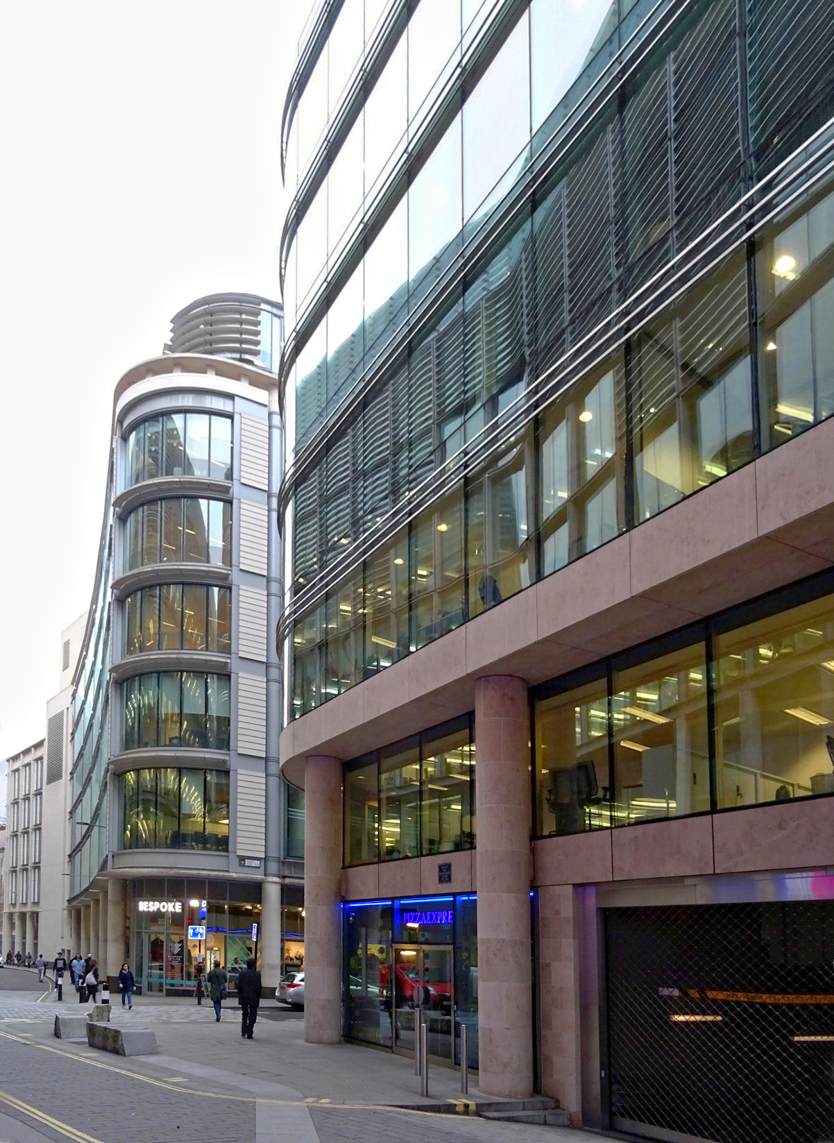 Site of the City of London School 1835-1882 - Milk Street London EC2V 6DN